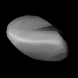 3D convex shape model of 1514 Ricouxa, computed using light curve inversion techniques. J. Hanuš, J. Ďurech, M. Brož, B. D. Warner (June 2011). "A study of asteroid pole-latitude distribution based on an extended set of shape models derived by the lightcurve inversion method". Astronomy and Astrophysics 530: A134. ISSN 0004-6361. arXiv